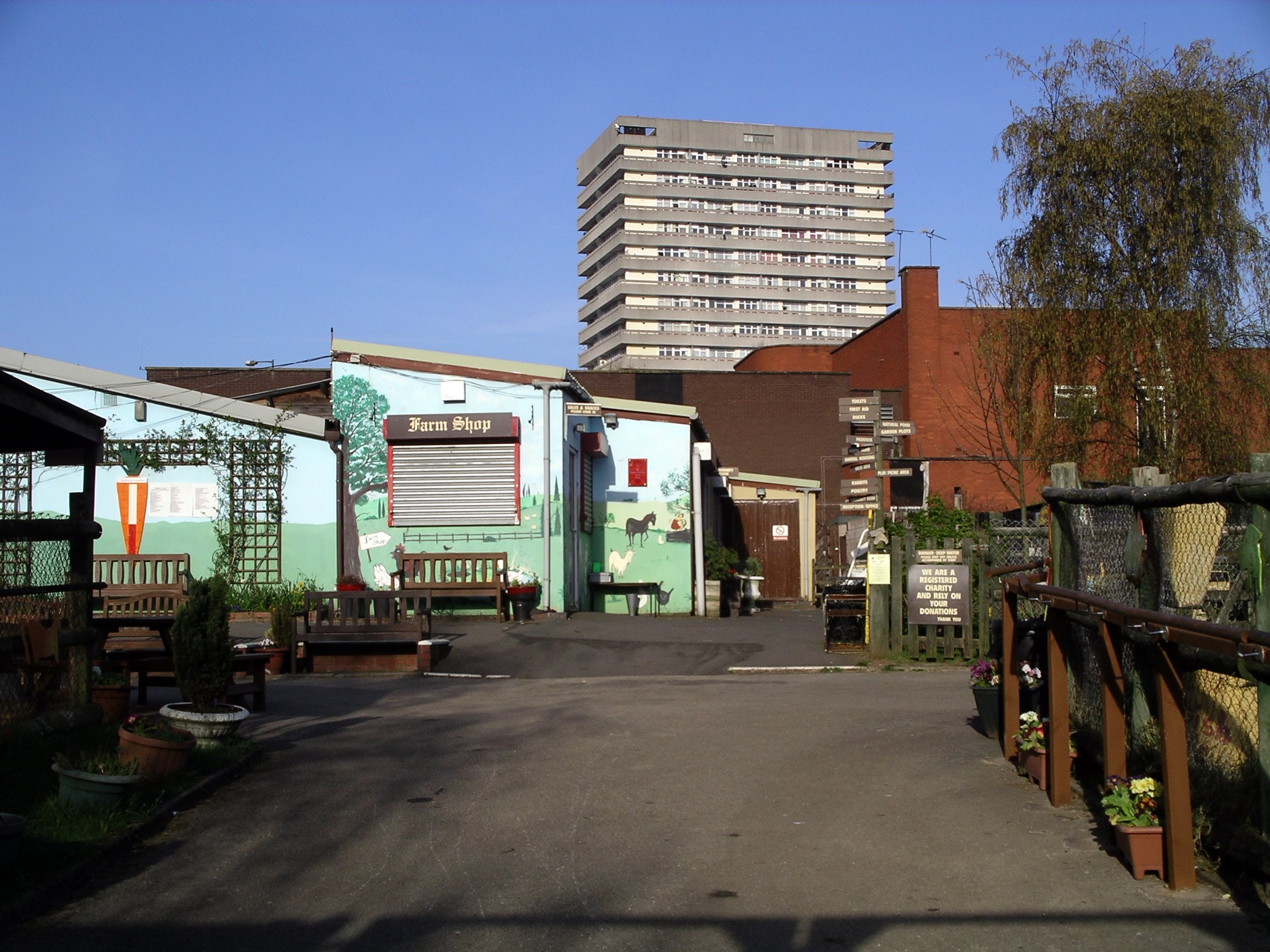 Photograph taken by me of the farm shop at Coventry City Farm, Coventry, England.